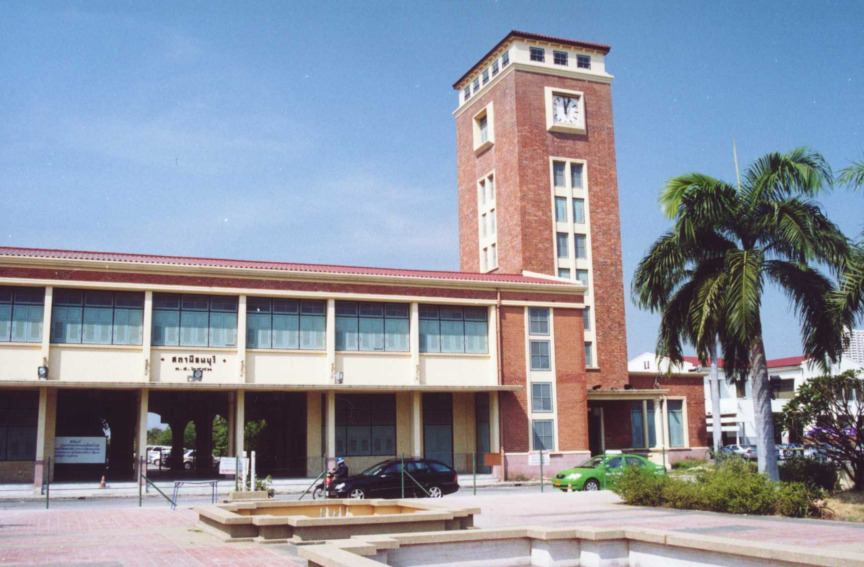 Sign of the former Thonburi (or Bangkok Noi) railway station, Bangkok, Thailand. Photo taken by User:Ahoerstemeier on January 24 2006.